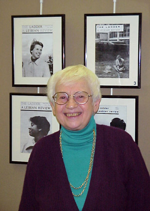 Kay Lahusen at an exhibit of her photographs in 2005.